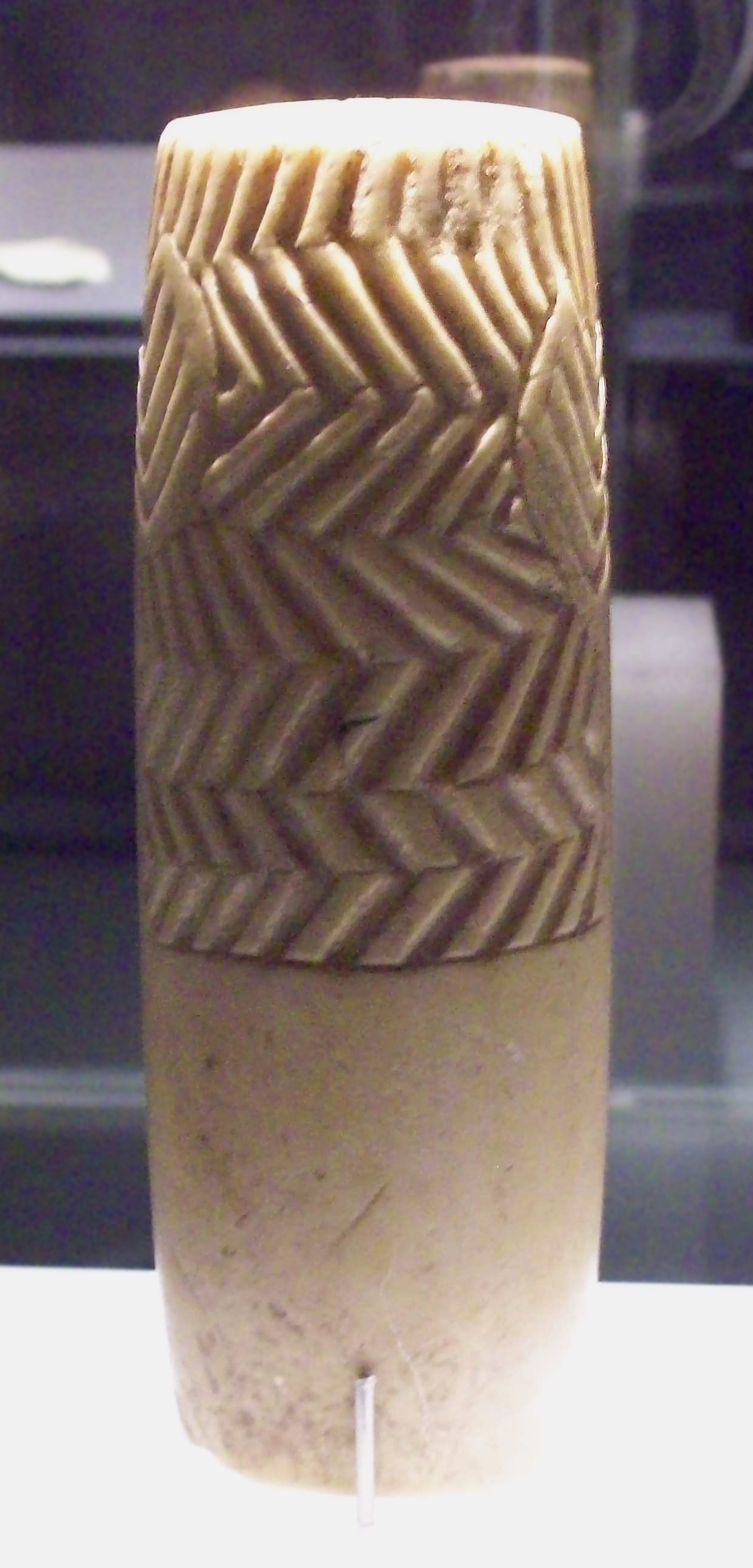 An eyed idol from the Copper Age. Schematic artwork. It has a cylindrical shape, slightly enlarged at the center, and it shows a perimetric engraving decoration. There are representations of radial-schematic eyes, eyebrows, hair and a possible facial tatoo.